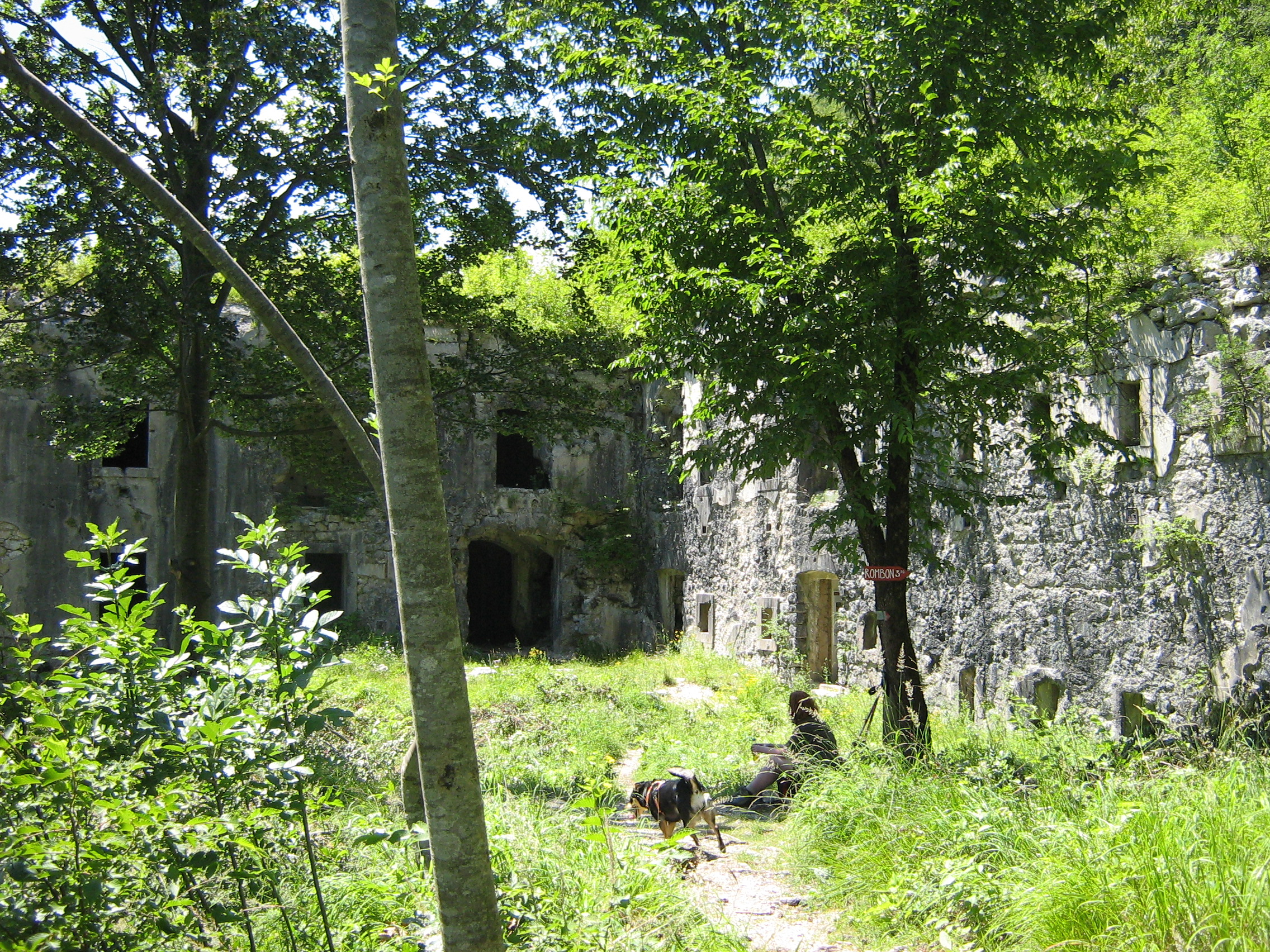 Fort Hermann above Fort Kluže near Bovec Slovenia